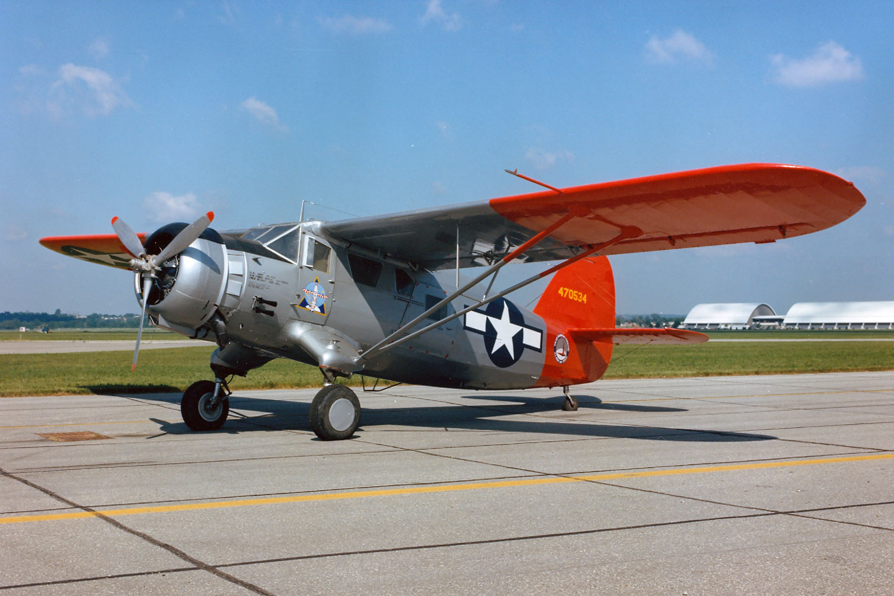 DAYTON, Ohio -- Noorduyn UC-64A Norseman at the National Museum of the United States Air Force. The Norseman 44-70296 on display was acquired by the museum in March 1981. It is marked as Norseman 44-70534 based in Alaska late in WWII.